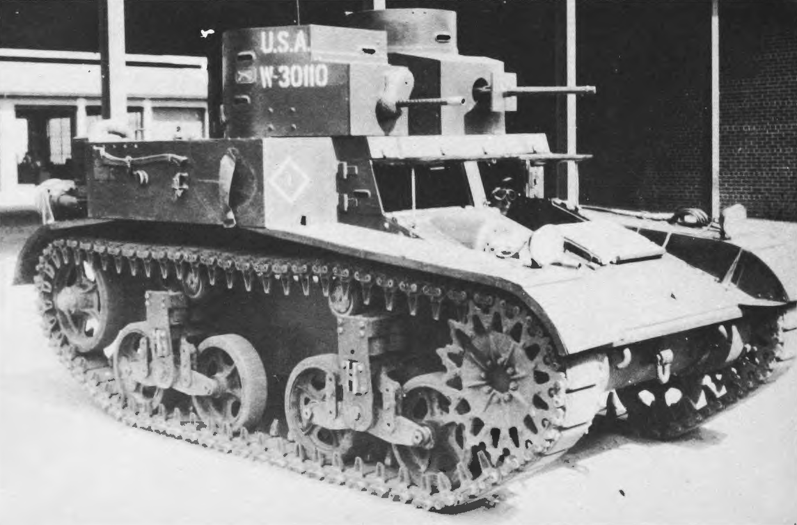 The Light Tank, M2A2, a U.S. Army light tank introduced in 1935. Unlike the M2A1, the M2A2 had separate turrets for its .50 caliber and .30 caliber machine guns. The .50 caliber turret is on the tank's left, above the driver, who can be seen peering through the open hatches.